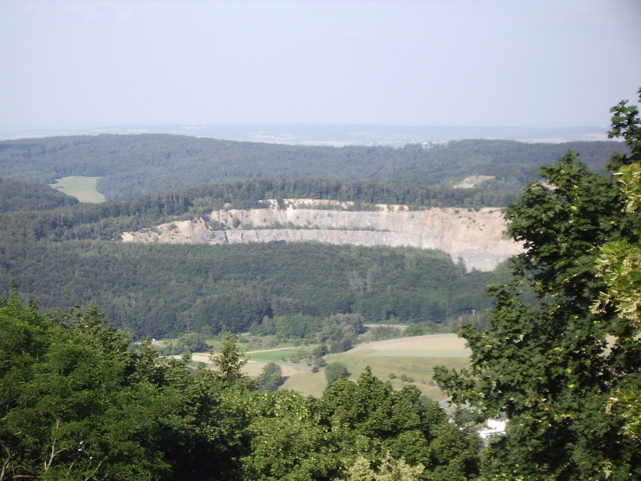 Quarry near Burg Frankenstein